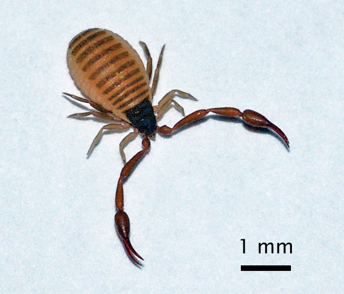 A pseudoscorpion named Chelifer cancroides. The specimen is about 2.5 to 3 mm long (without extremities) and lives between the author's books.